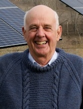 Wendell Berry stands before the solar panels on his farm in Henry County, KY. Photo by Guy Mendes